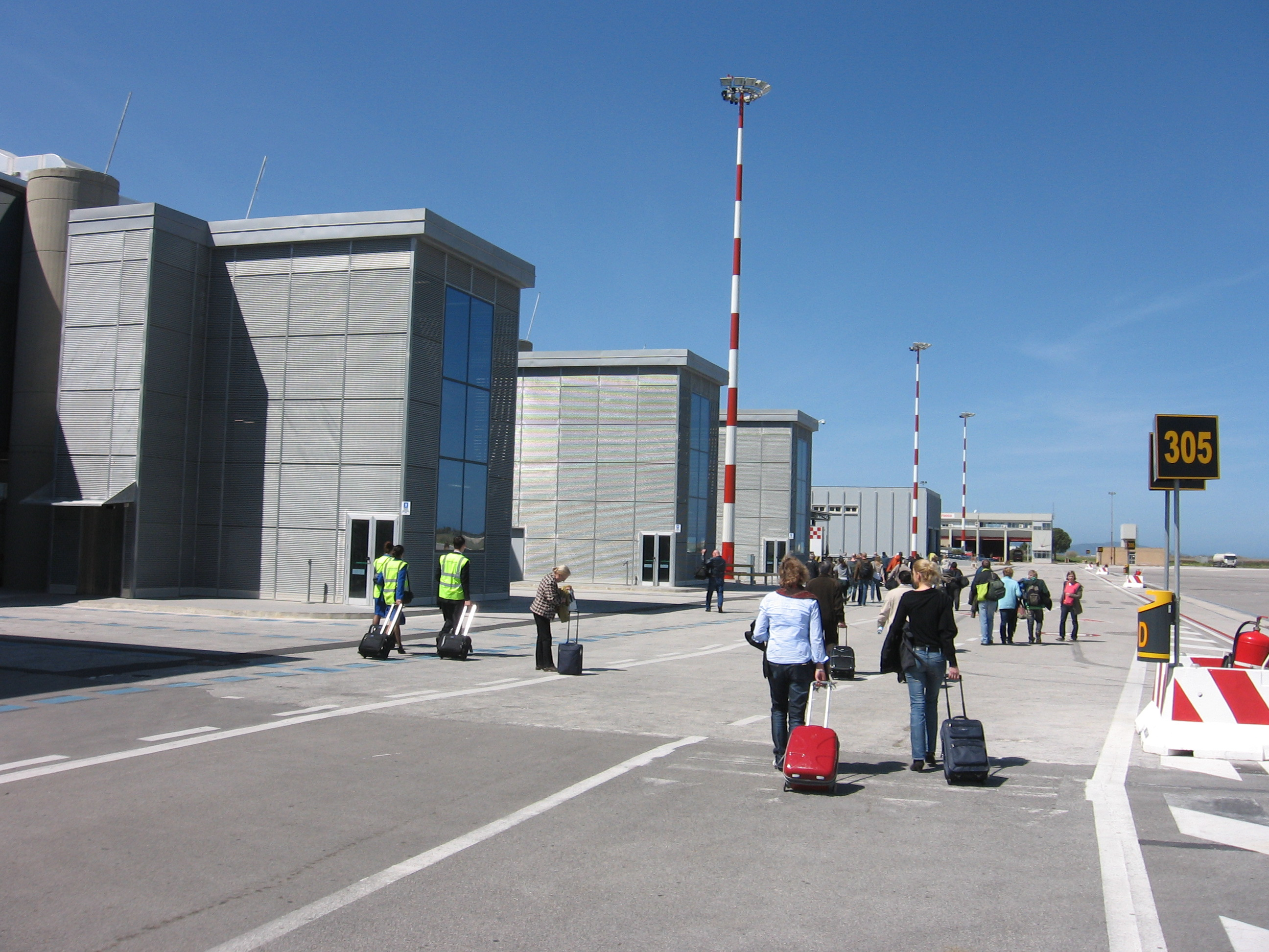 Trapani-Birgi Airport